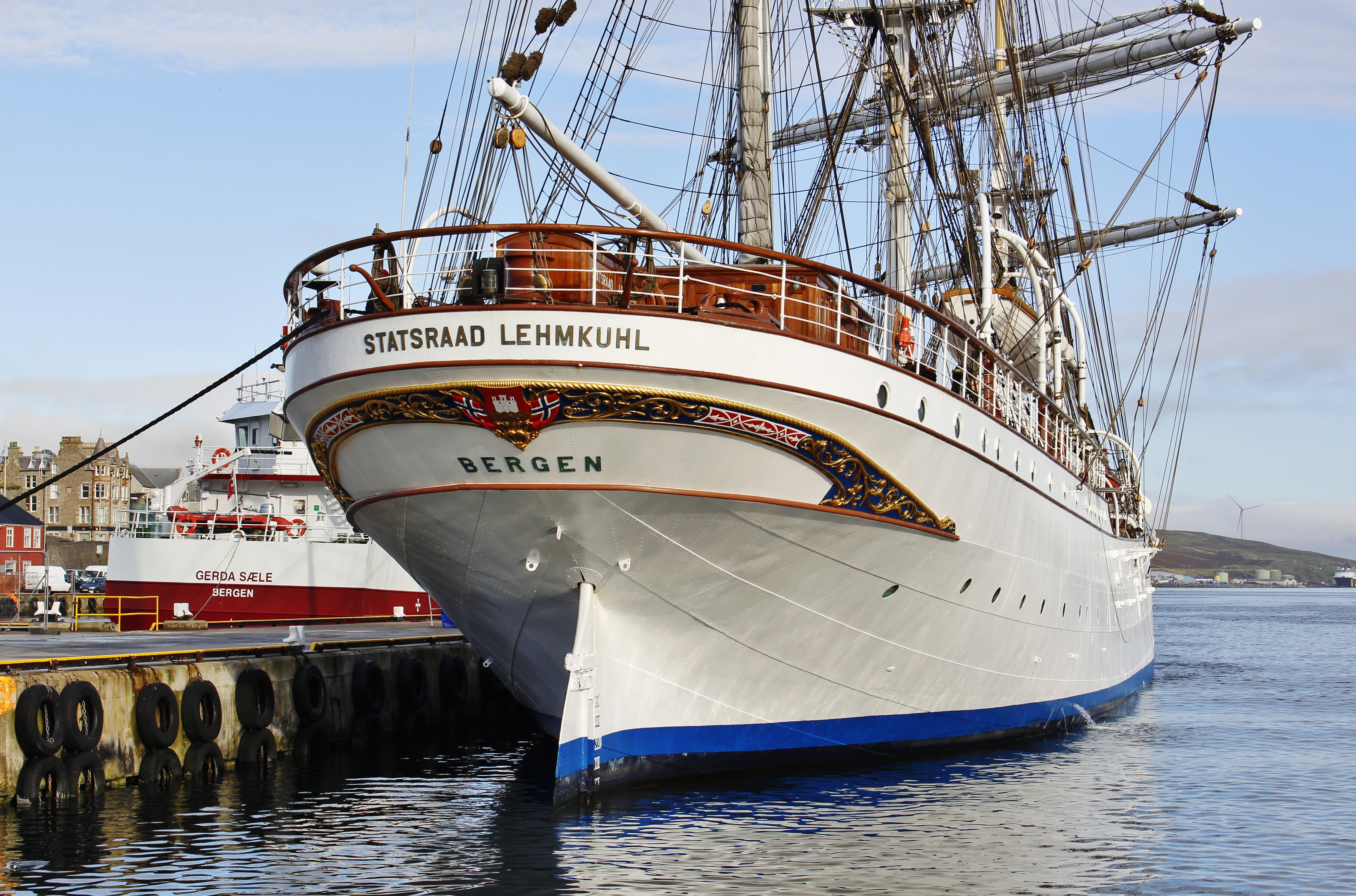 The Norwegian sail training ship making one of her regular trips to Shetland shown here arriving in Lerwick on a calm September morning.